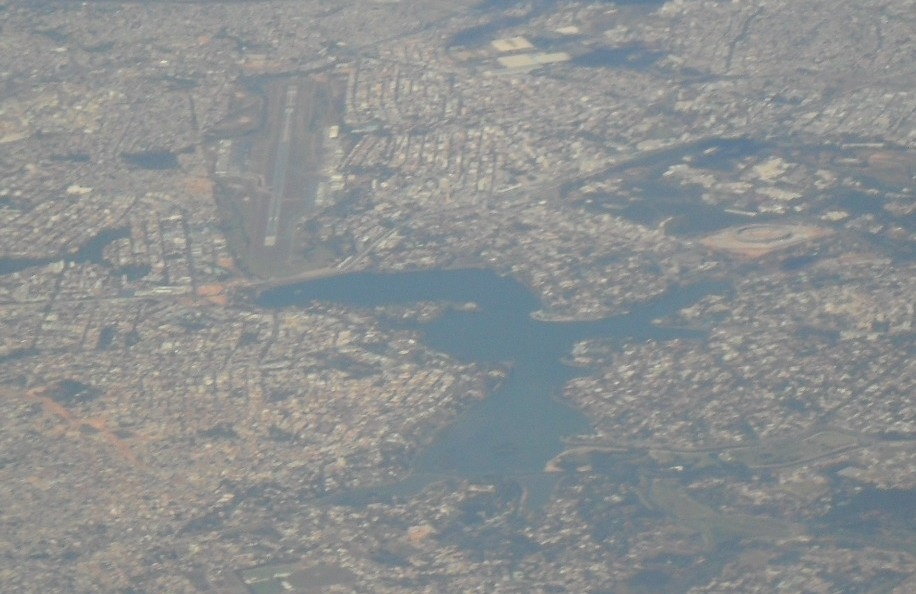 Aerial view of Pampulha airstrip and lake in Belo Horizonte, Minas Gerais, Brazil